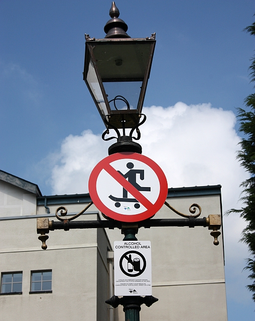 No skate-boarding, Priory Park, Great Malvern In an attempt to keep this park a place for peaceful relaxation certain restrictions have to be enforced including cycling, skate-boarding, disruptive alcohol consumption, ball games, etc. Can't please all of the people all of the time.